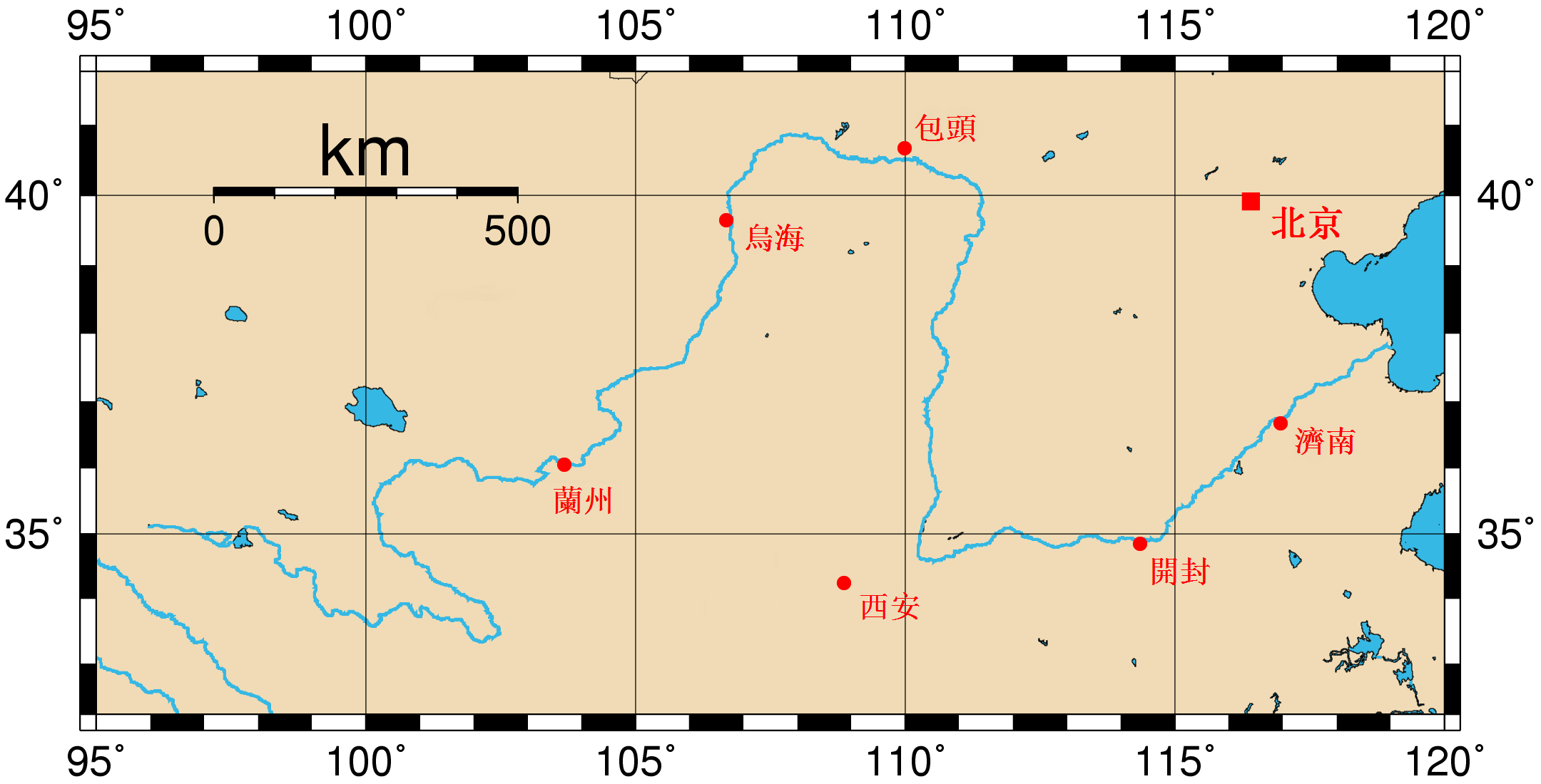 Map of the Huang He and the location of major cities along its course. This map was generated using the Generic Mapping Tools (GMT). The city coordinates (longitude, latitude) used are: *103.6833 36.0500 Lanzhou *106.6833 39.6500 Wuhai *109.9833 40.6666 Baotou *114.3500 34.8500 Kaifeng *116.9600 36.6666 Jinan *108.8666 34.2500 Xi'an *116.4166 39.9166 Beijing